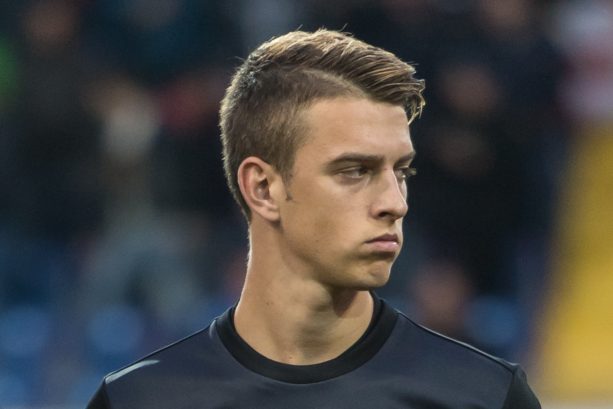 European Under-21 Championship 2017 Qualifying Round, Austria vs Germany, 11/10/2016, St. Polten